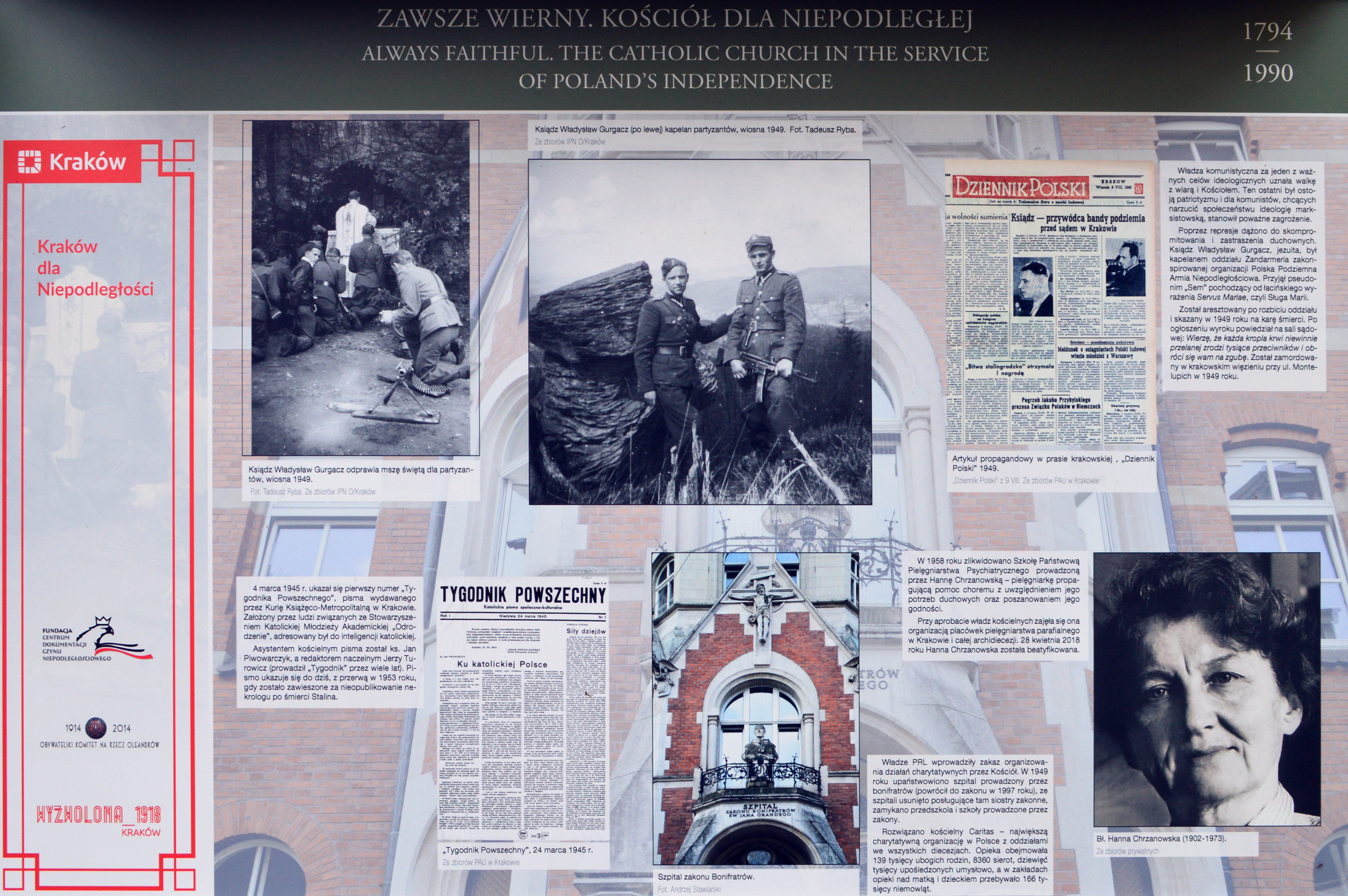 Kraków History 1794-1990, “Always Faithful the Catholic Church in the Service of Poland’s Independence”. Visitors to Kraków in the summer of 2018 were given ‘snapshots’ of some of the remarkable history of the city through poster displays scattered around the outskirts of the ‘Old Town’. From the establisment of the Bar Confederation in 1768 and the Kościuszko Uprising in 1794 through the Kraków Uprising in 1746 and the events of the ’Spring of Nations’ in 1748 to the calamities of war and oppressive occupations by powerful neighbours Kraków today is a captivating city proudly reflecting on its past in a now independent and free Poland.The Scotch Mist Gallery contains many photographs of historic buildings, monuments and memorials of Poland.